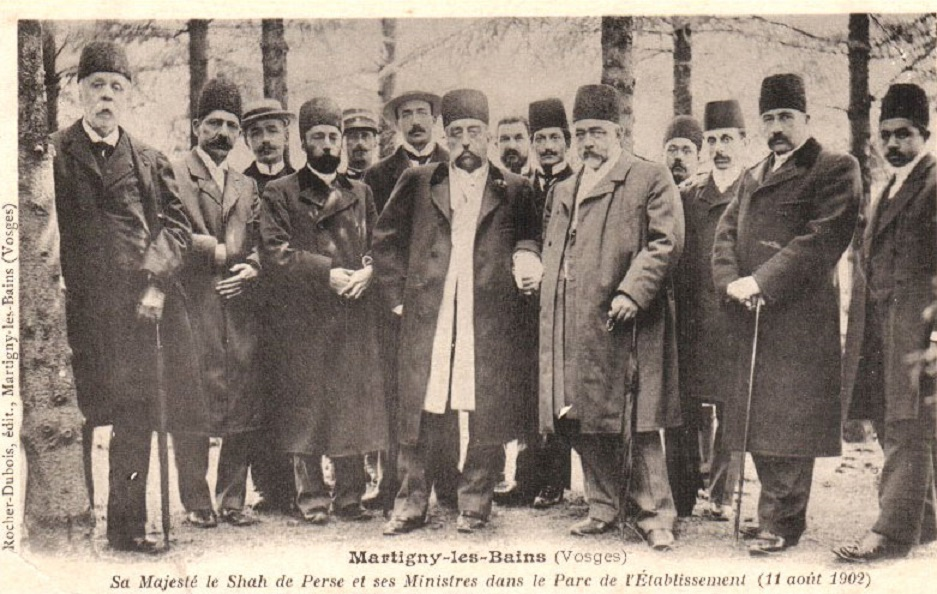 Persian king Mozaffar ad-Din Shah (center with white vest) and retinue taking the waters at a French spa in 1902. Contemporary postcard.